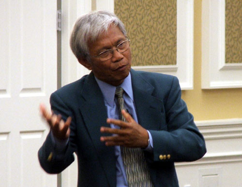 Dith Pran.